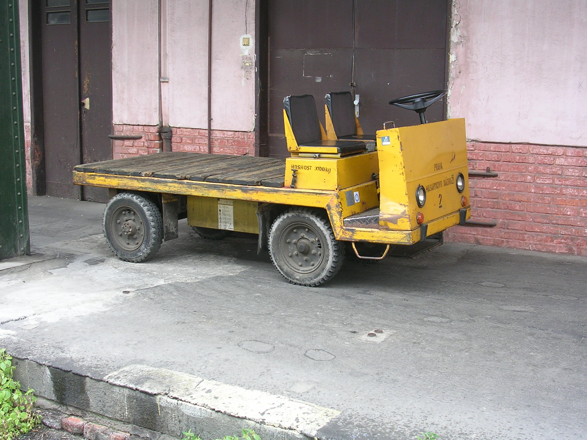 Praha Masarykovo nádraží, train station in Prague, the Czech Republic. Battery-powered baggage cart.